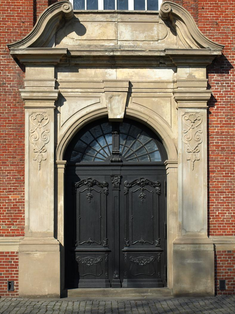 Church St. Trinitatis Hamburg-Altona (Germany) southern portal , photo 2011